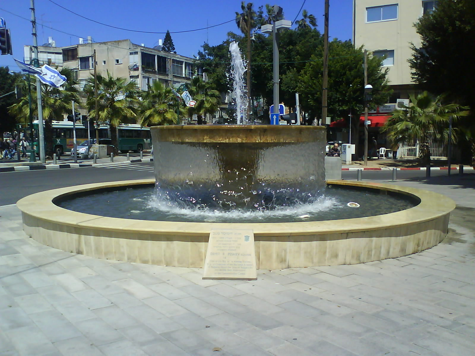 Hamazreka, a fountain at Yaffo